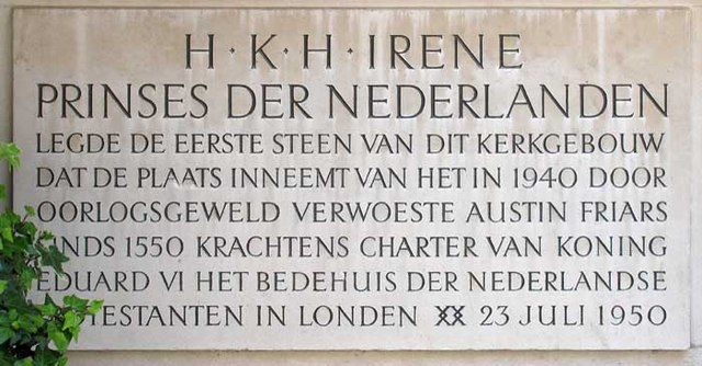 The Dutch Church, Austin Friars, London EC2N 2HA - Foundation stone